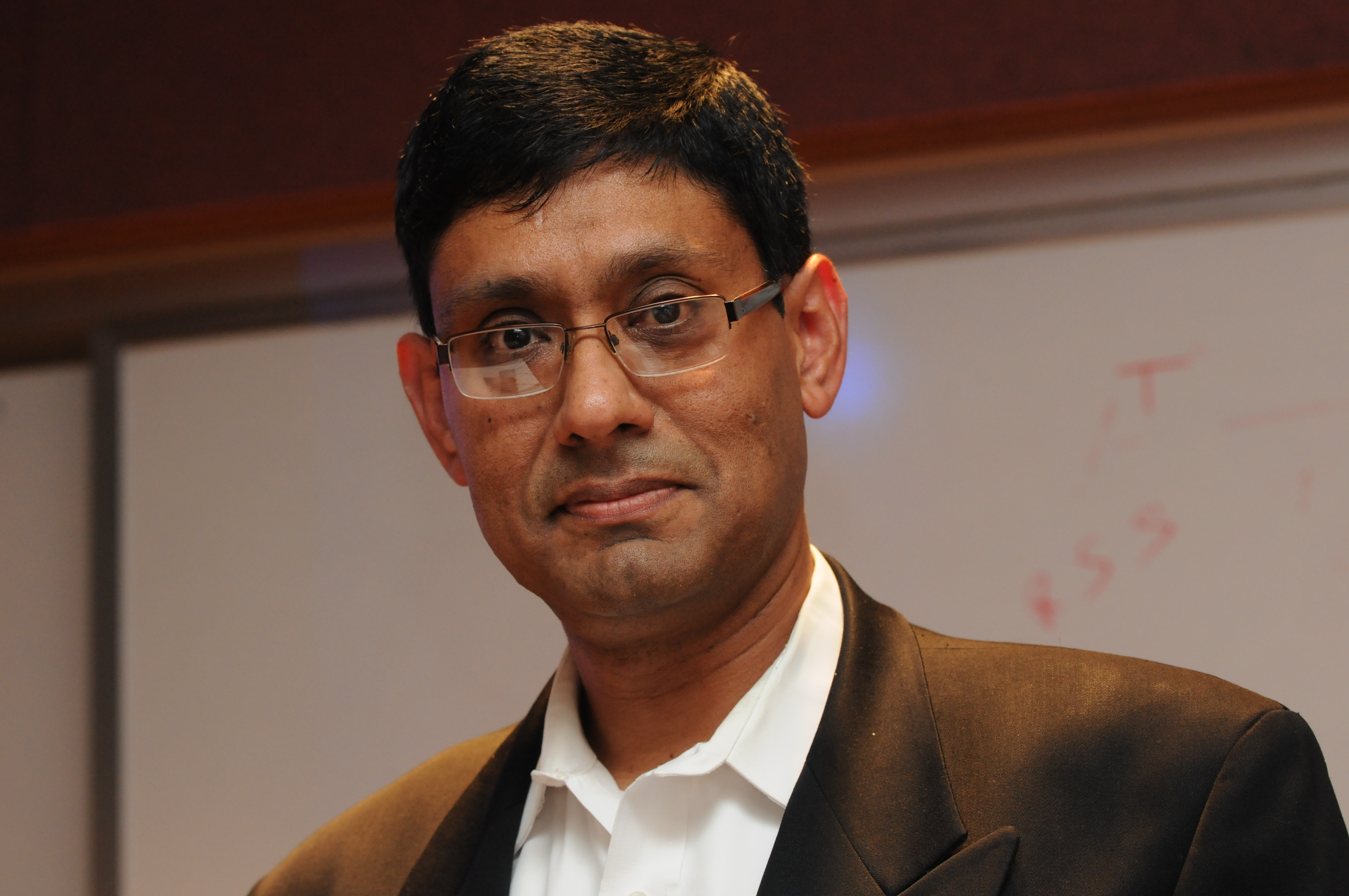 Computer science researcher Prith Banerjee about to give a talk at the University of California, Berkeley (306 Soda Hall, HP Auditorium) on the HP Labs research agenda.